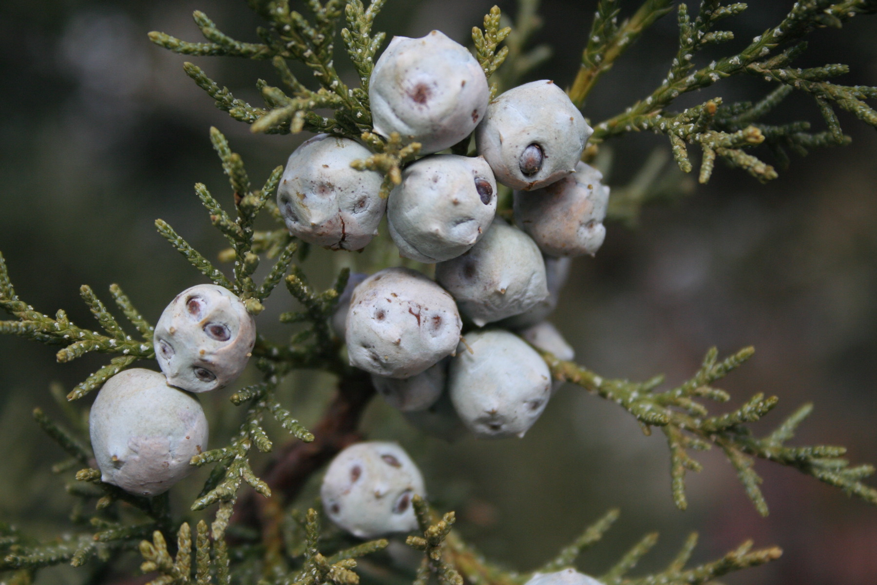 Juniperus deppeana cones with insect infestation causing exserted seeds. Cone at lower left is undamaged. Near Strawberry, Gila County, Arizona.